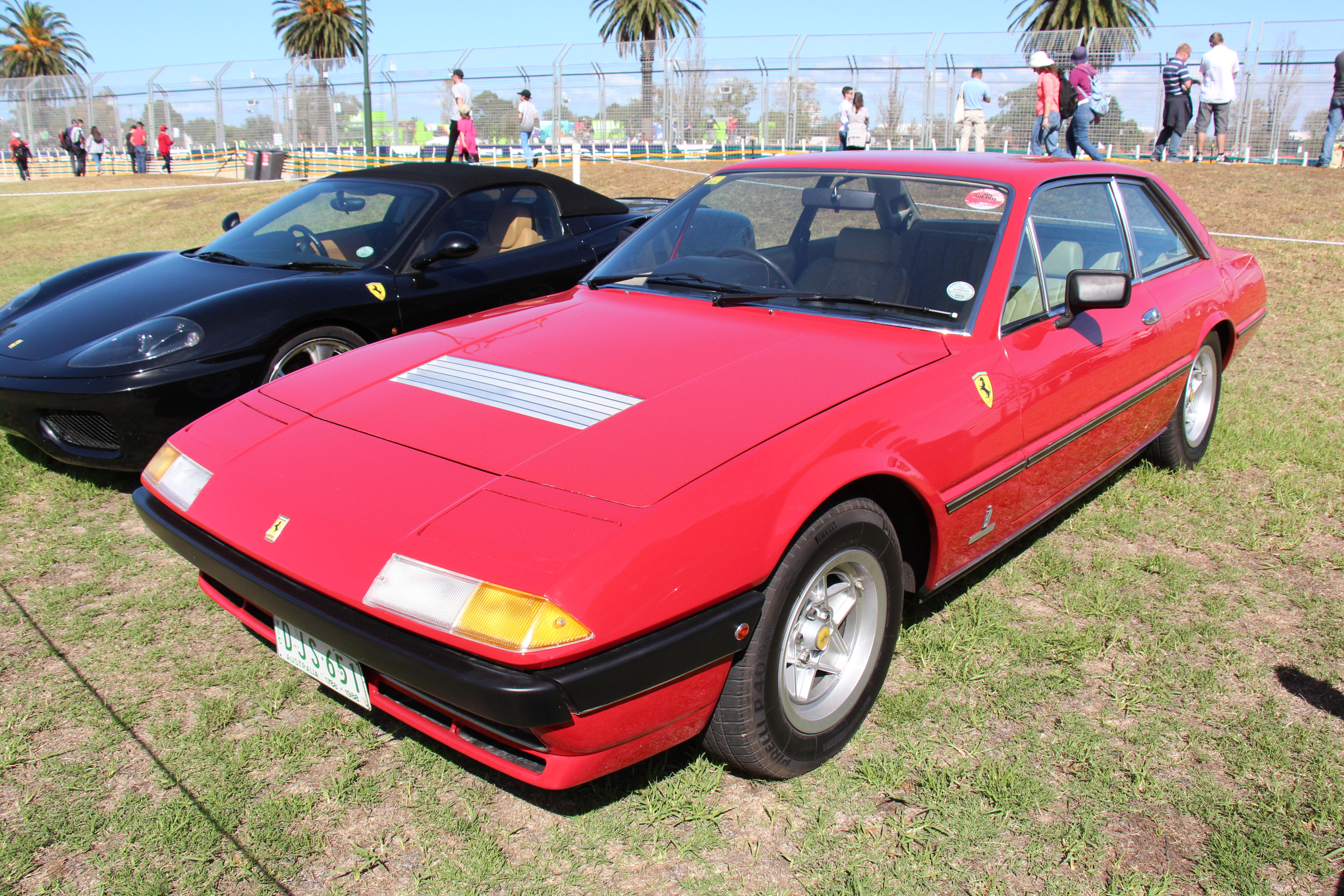 The Ferrari 400 was built from 1976-85, it replaced the 365 GT4. To visually differentiate the 400 from the 365 GT4, the 400 came with a chin spoiler, paired circular stoplights and the deletion of the emblem from the radiator grille. The interior got more sumptuous, with better seat upholstery, different stitching, patterns and slightly changed switchgear. From 1976-79 it was the 400 From 1979-85 was the 400i, now with fuel injection And from 1985-89, the 412, now with more style and more power 400 Engine; 340hp 4.8 V12